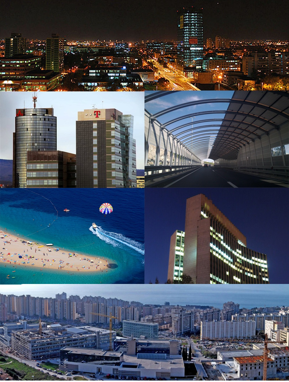 Montage of important aspects of the Croatian economy.